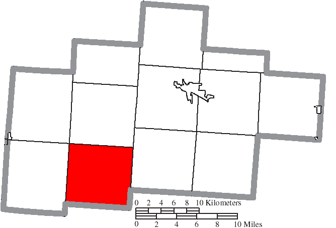 Map of the municipal and township boundaries of Hocking County, Ohio, United States, as of the 2000 census, with the location of Benton Township highlighted. Township borders are shown only in unincorporated areas in order to differentiate incorporated and unincorporated areas more clearly.